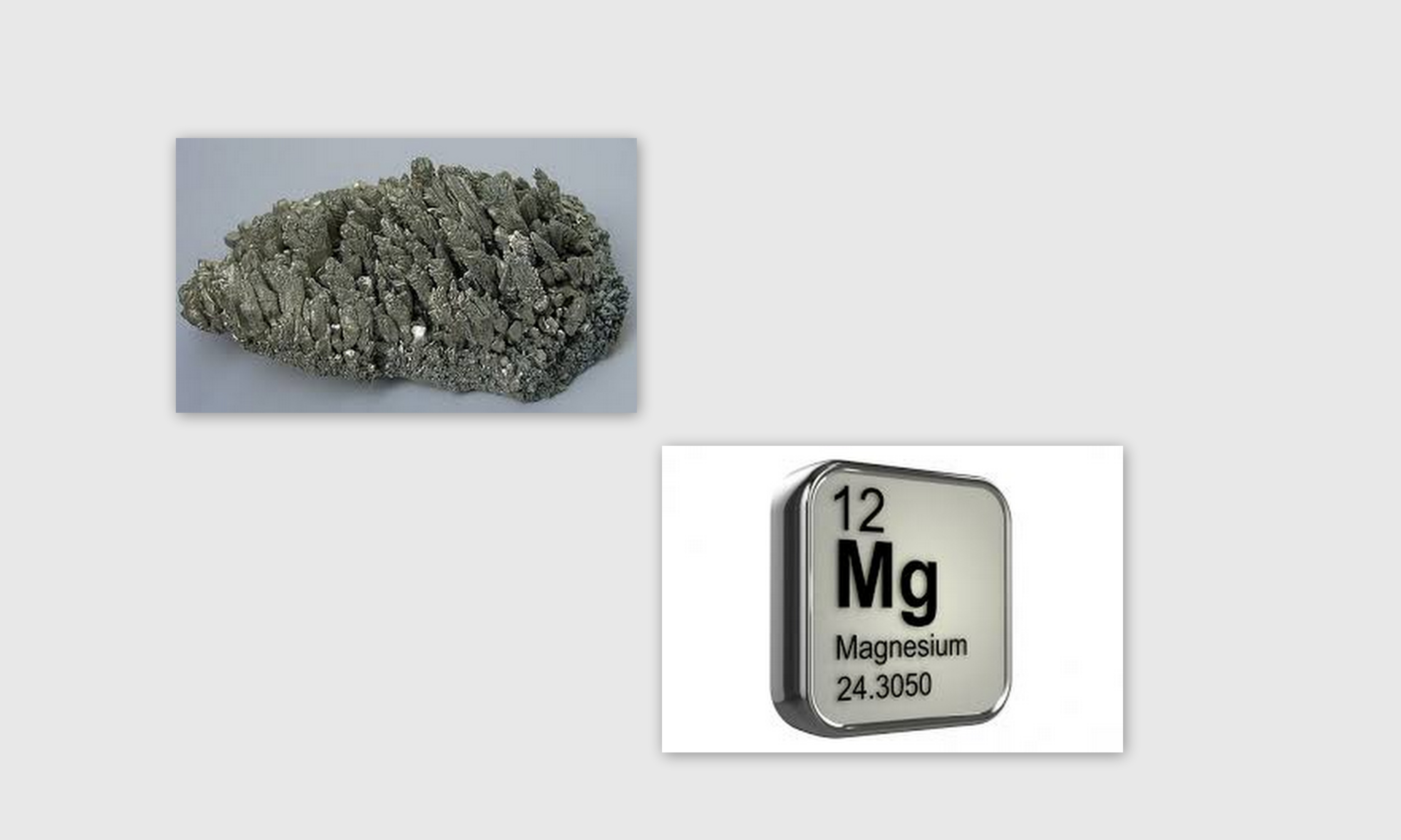 structure of megmisium